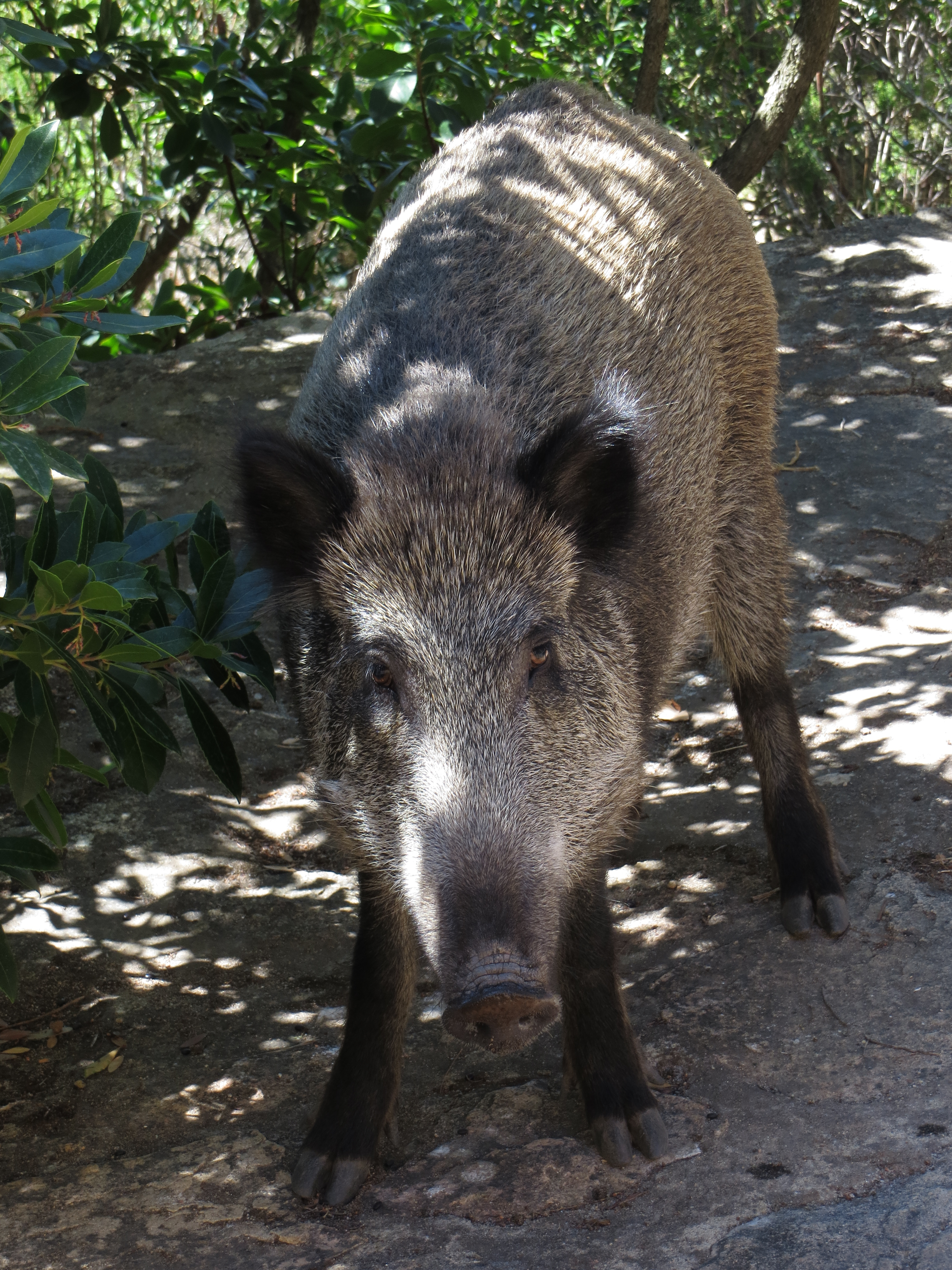 Sardinian wild boar (Sus scrofa meridionalis)